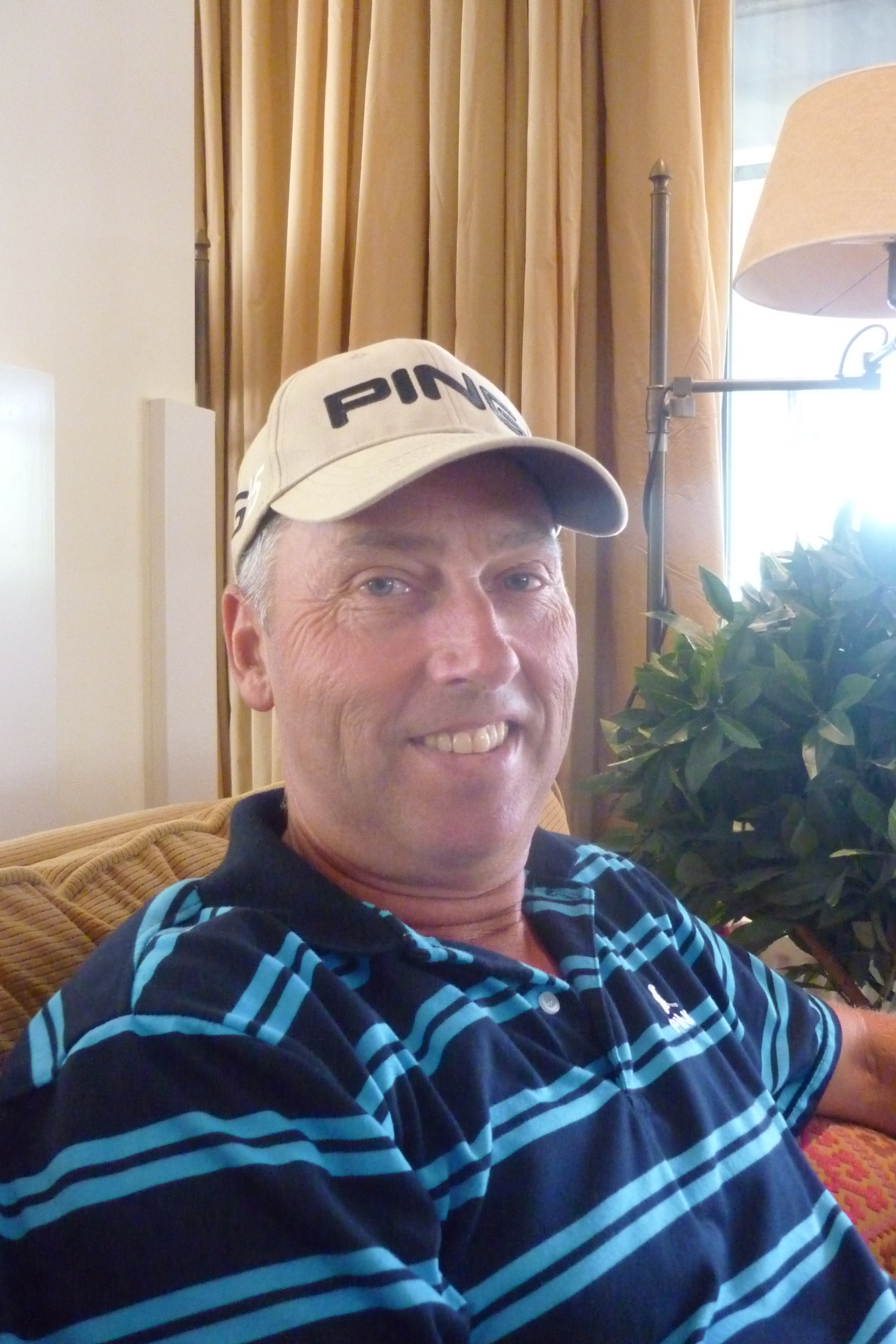 Mike Harwood at the Dutch Seniors Open